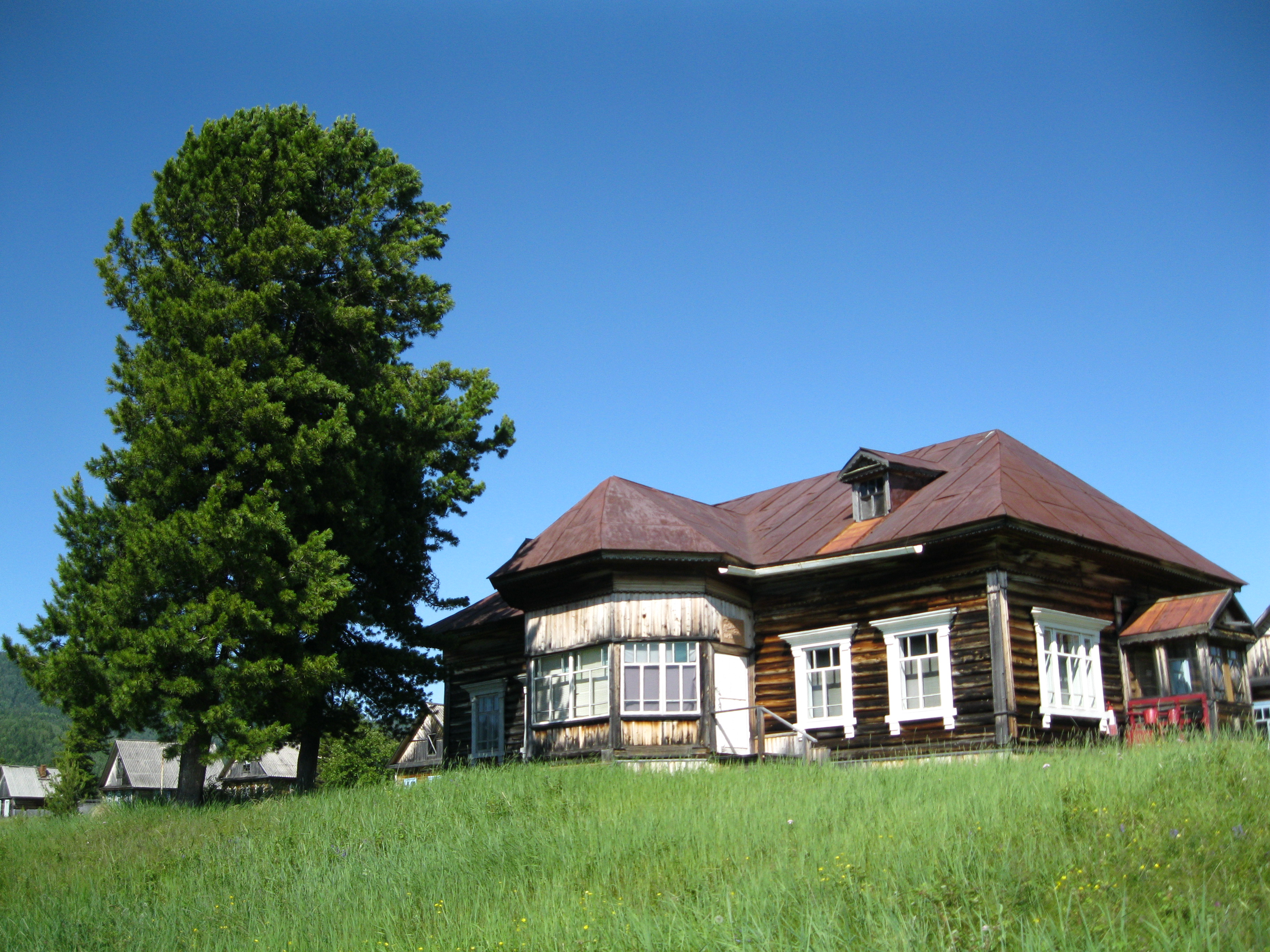 Scientific department and museum in Davsha, Buryatia, Russia